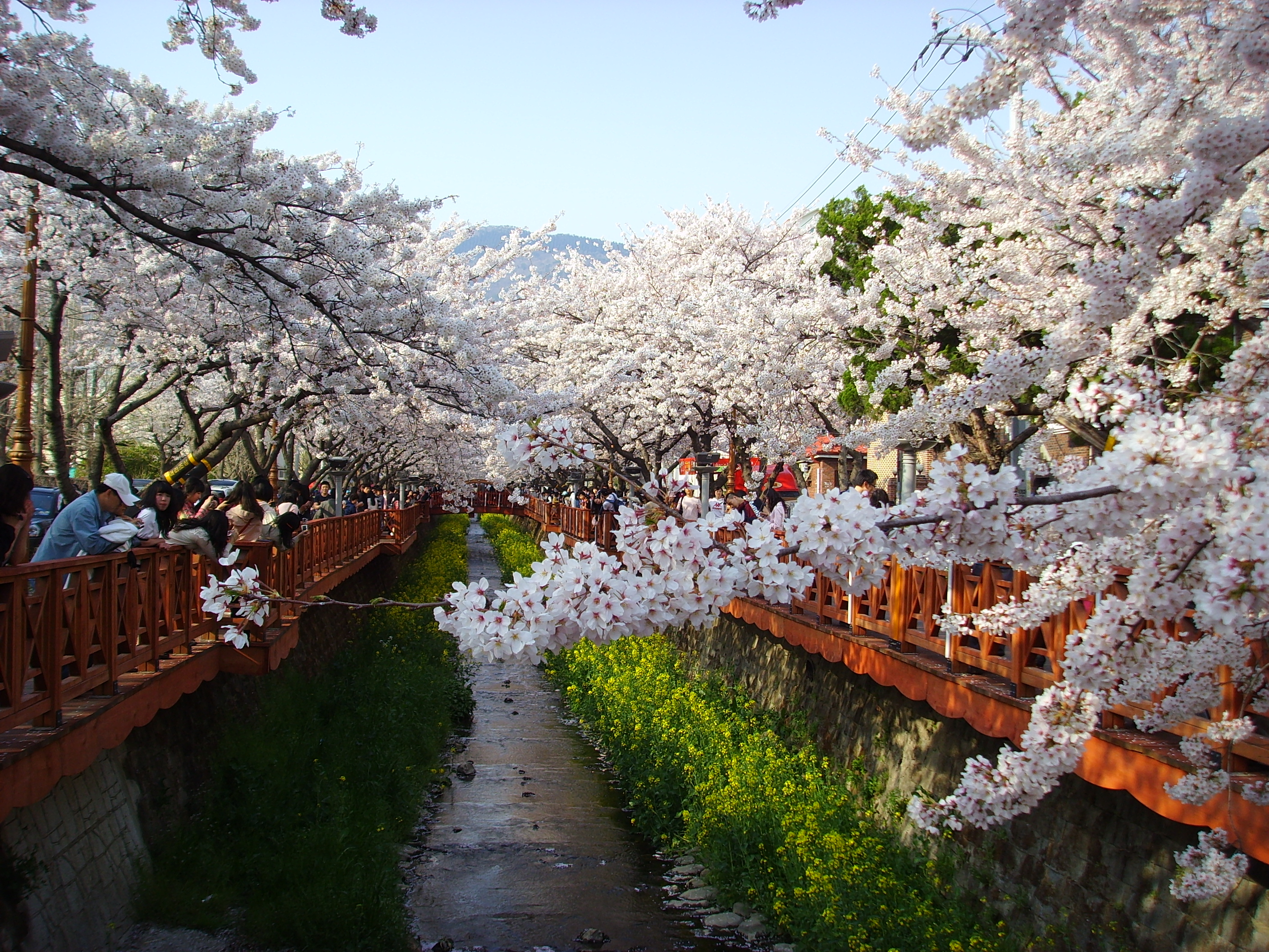 Jinhae Gunhang Festival